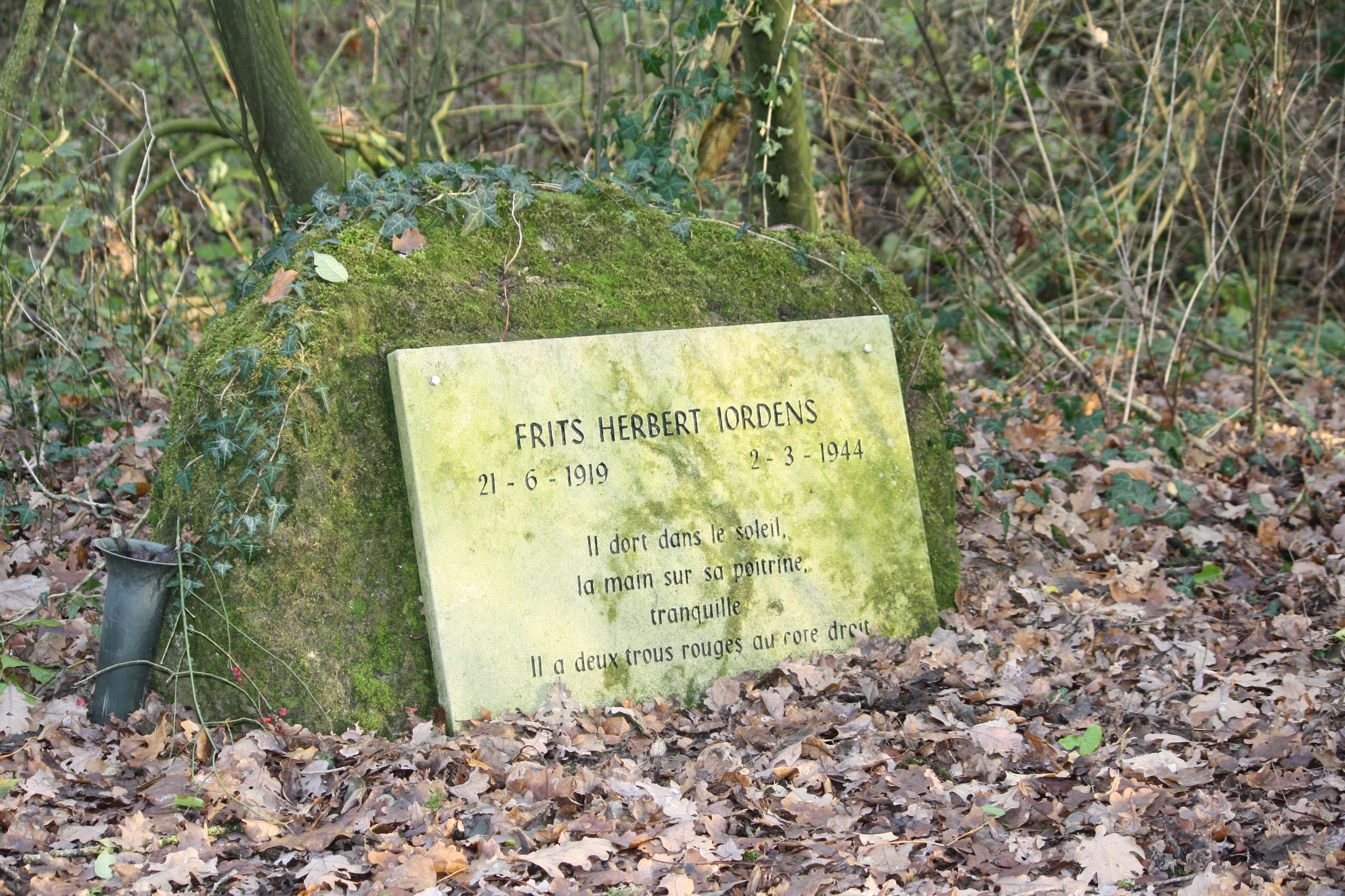 Grave of Frits Iordens